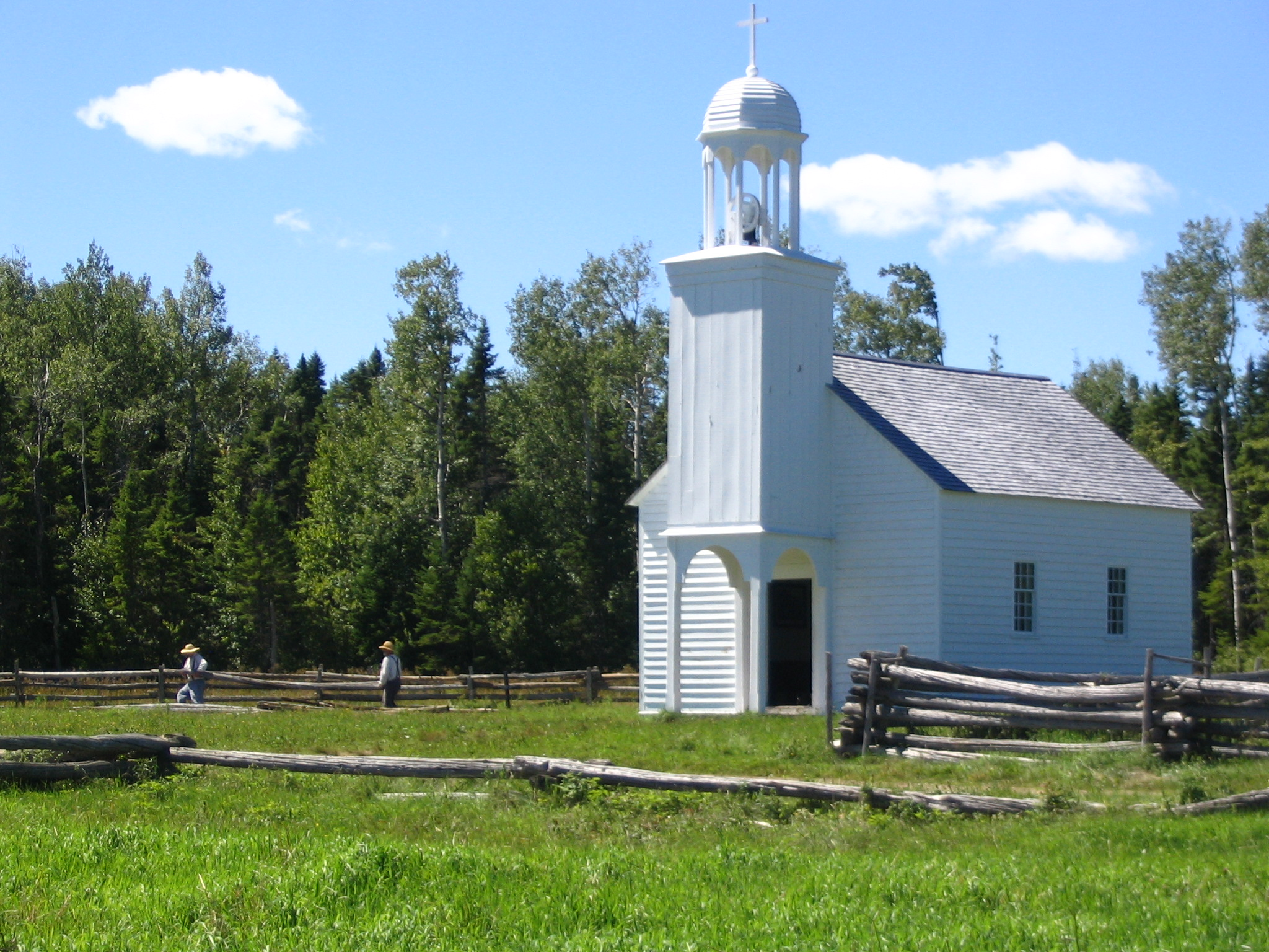 Exterior of Sainte-Anne-du-Bocage chapel at the Village historique acadien in New Brunswick, Canada.